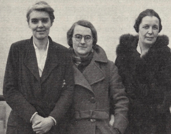 Portraits of three women engineers: Margaret Rowbotham, Beatrice Shilling and Margaret Partridge